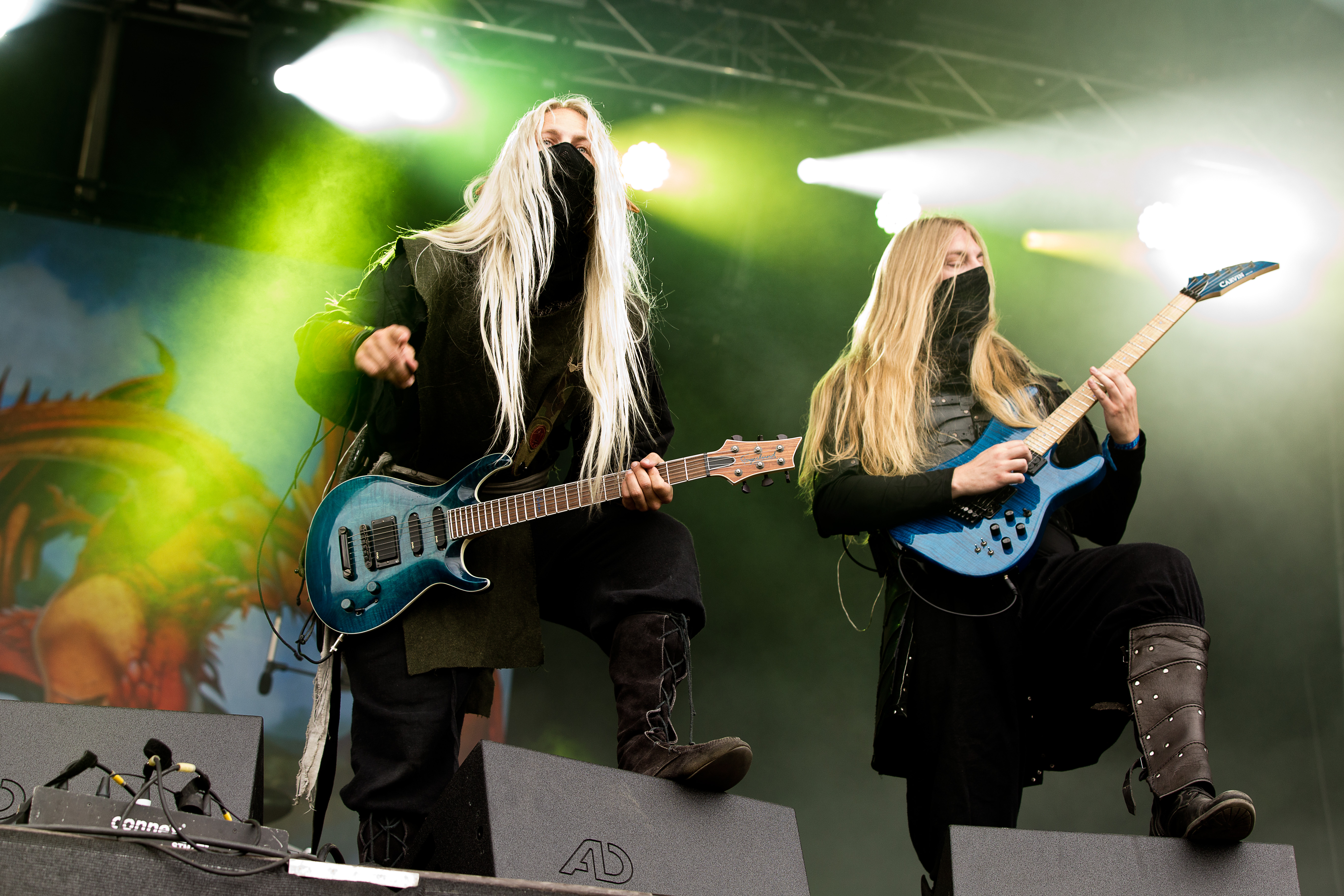 The Swedish power metal band Twilight Force at the Rockharz Open Air 2016 in Ballenstedt/Germany.